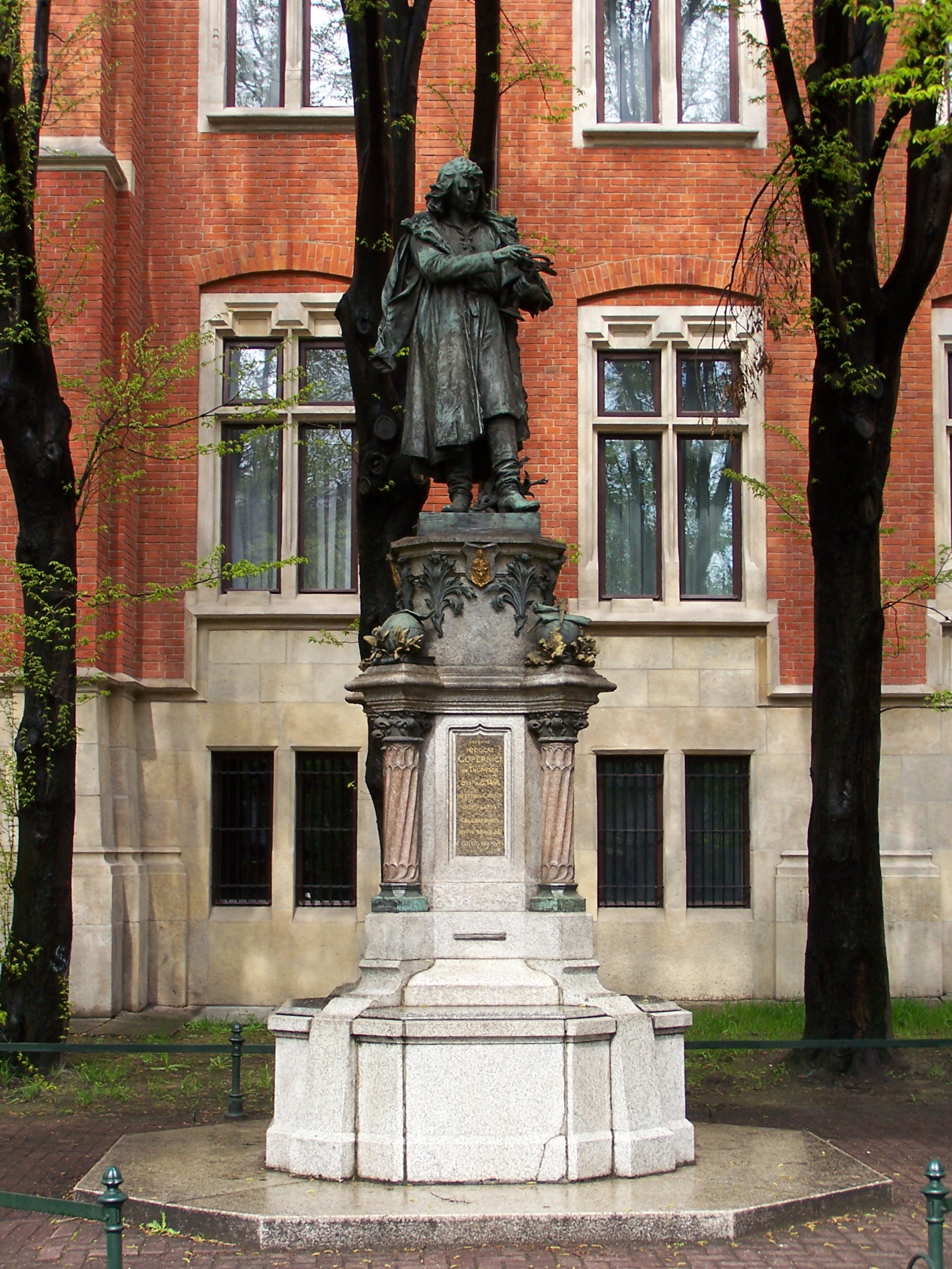 Nicolaus Copernicus Monument in Kraków.